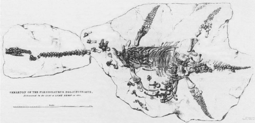 Lithograph of Plesiosaurus dolichodeirus skeleton found by Mary Anning in 1823, published in 1824 transactions of the Geological Society of London